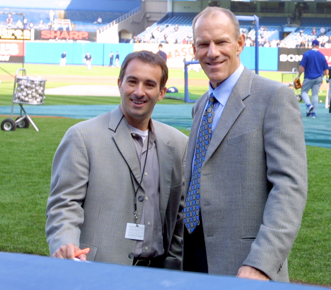 Josh Lewin and Tom Grieve, play-by-play announcer and color commentator (respectively) for the Texas Rangers Baseball Club.